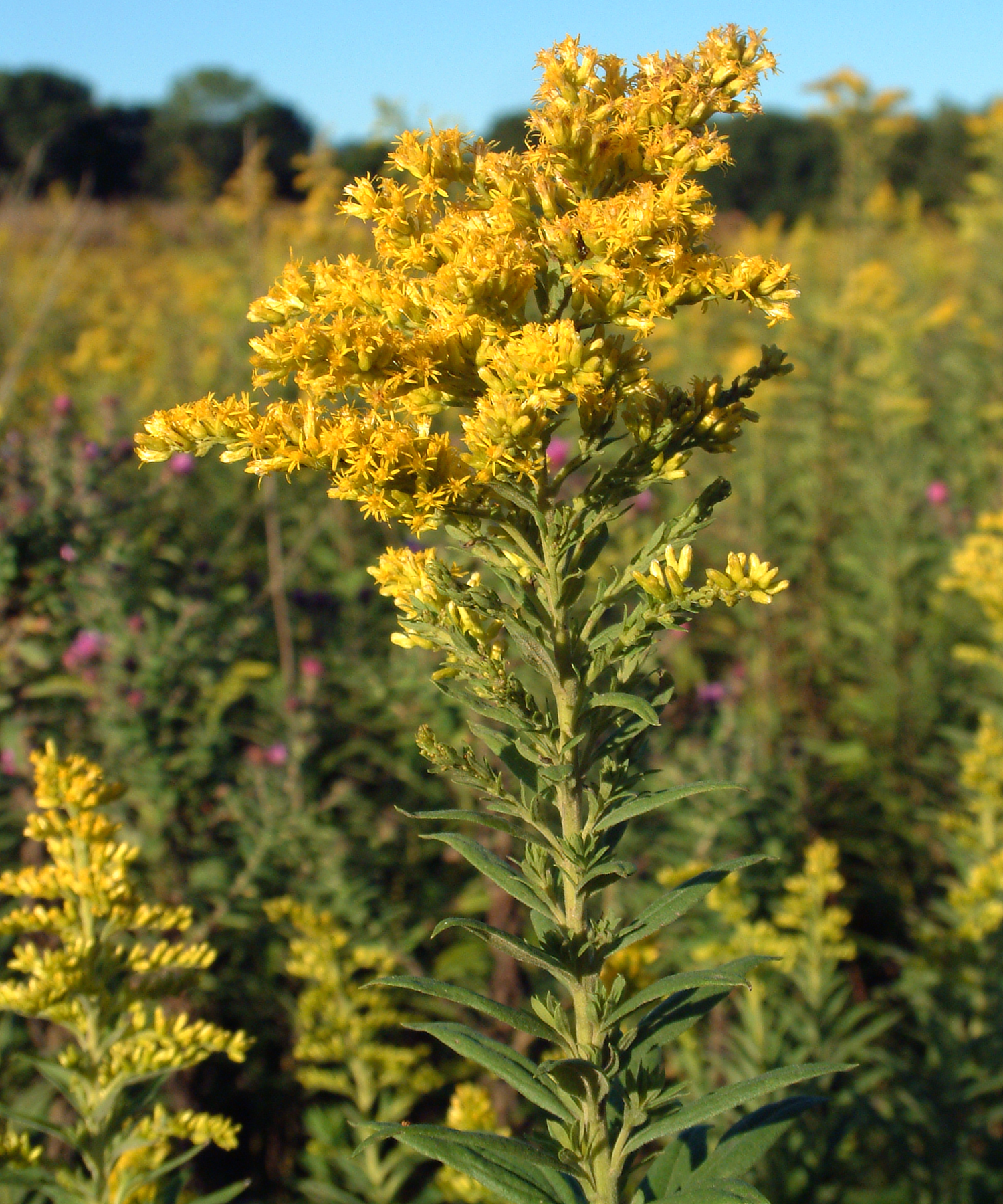 Goldenrod flowers photographed in western Fountain County, Indiana.